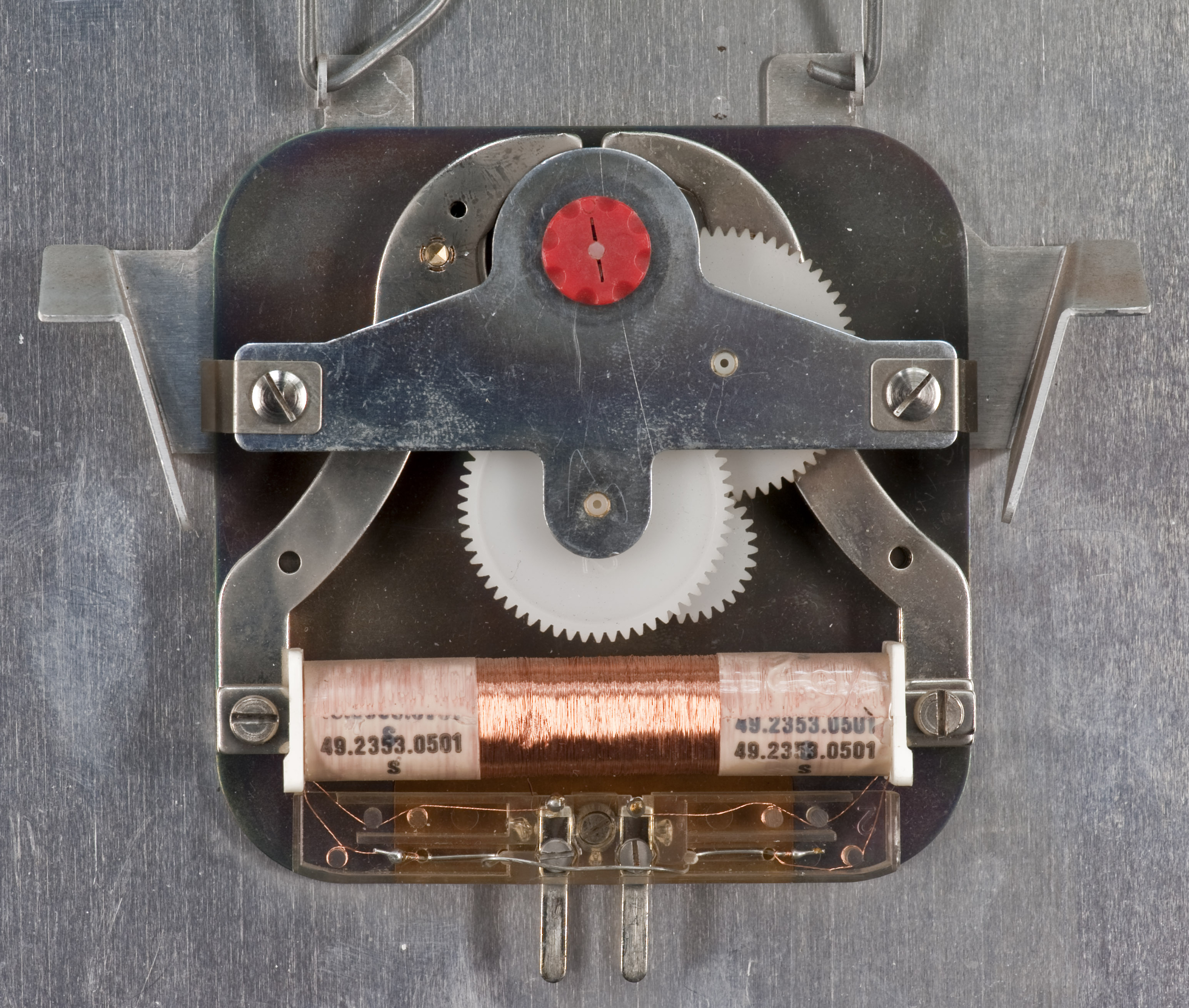 Motor of a wall clock manufactured by Telefonbau & Normalzeit (around 1960?)